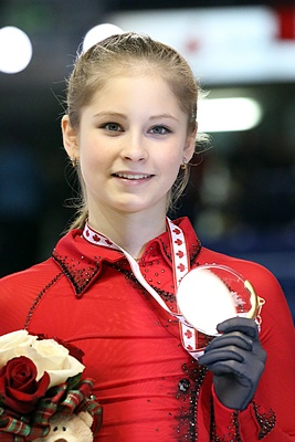 Yuliya Lipnitsкaya at the Sкate Canada 2013